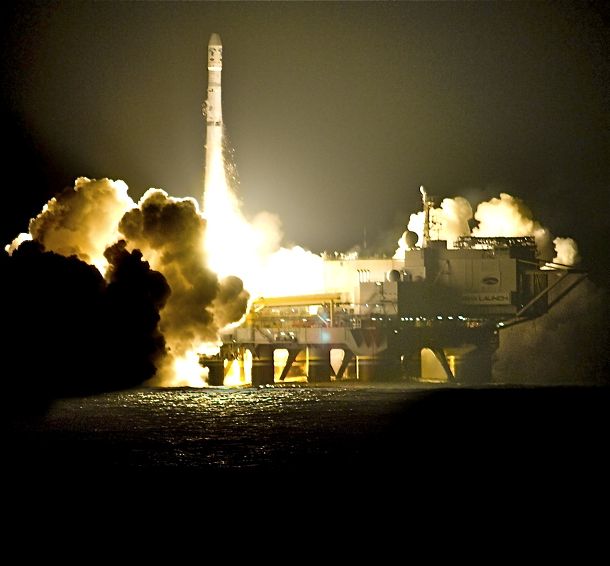 Sea Launch at Sea. All three stages fired successfully, putting a nuke-hardened Italian SIRCAL satellite into geostationary orbit.